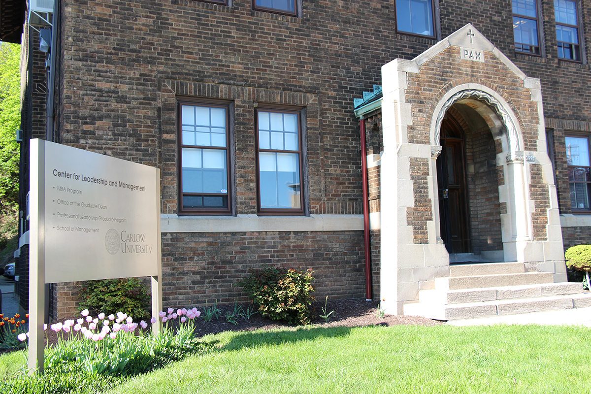 Carlow University Center for Leadership and Management main entrance